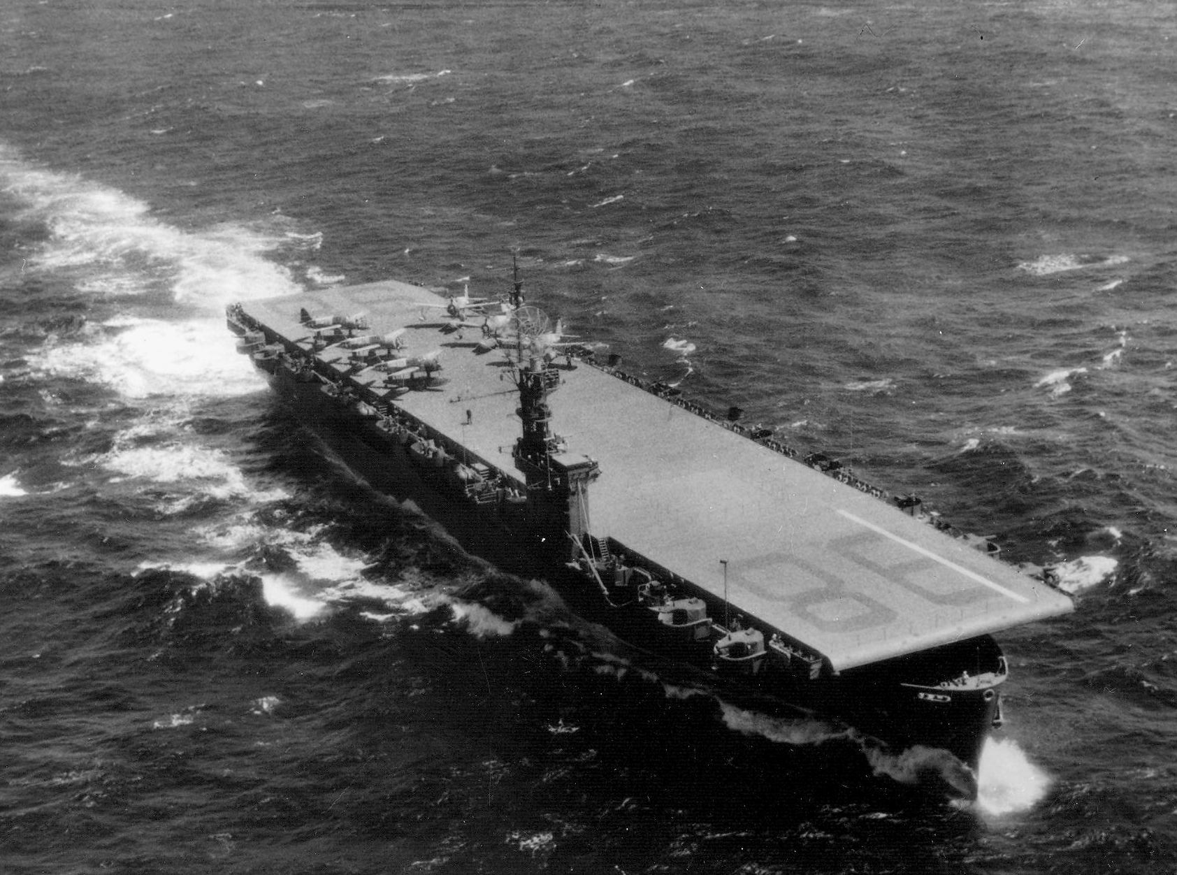 The U.S. Navy escort carrier USS Kwajalein (CVE-98) underway with six Vought OS2U Kingfisher floatplanes parked on her flight deck.